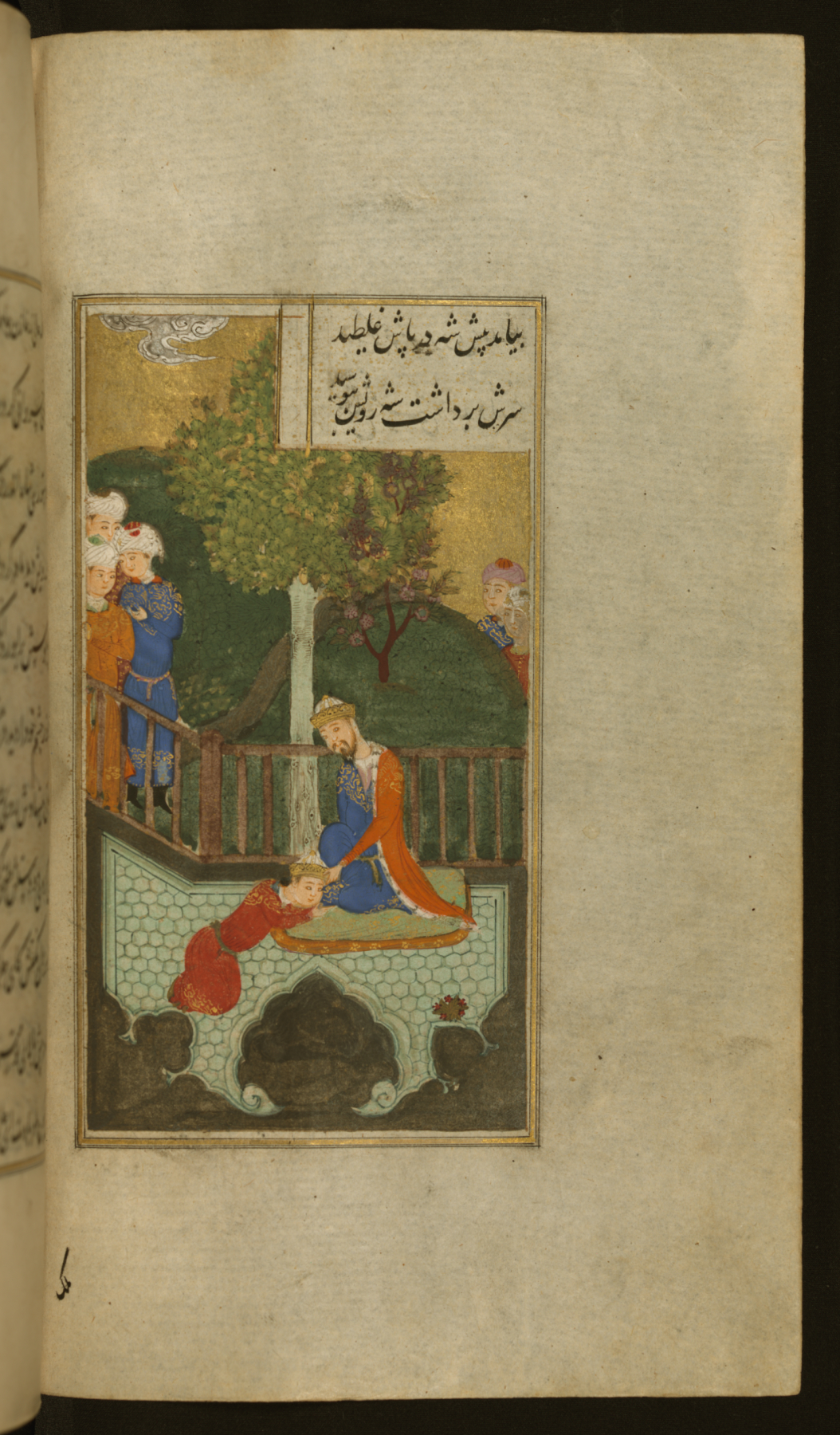 On this folio from Walters manuscript W.627, Mushtari (Jupiter), who is the son of the vizier, kneels at the feet of Mihr (the Sun), the son of King Shahpur.